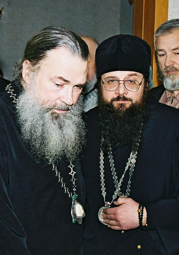 Дионисий и Тихон в Омске